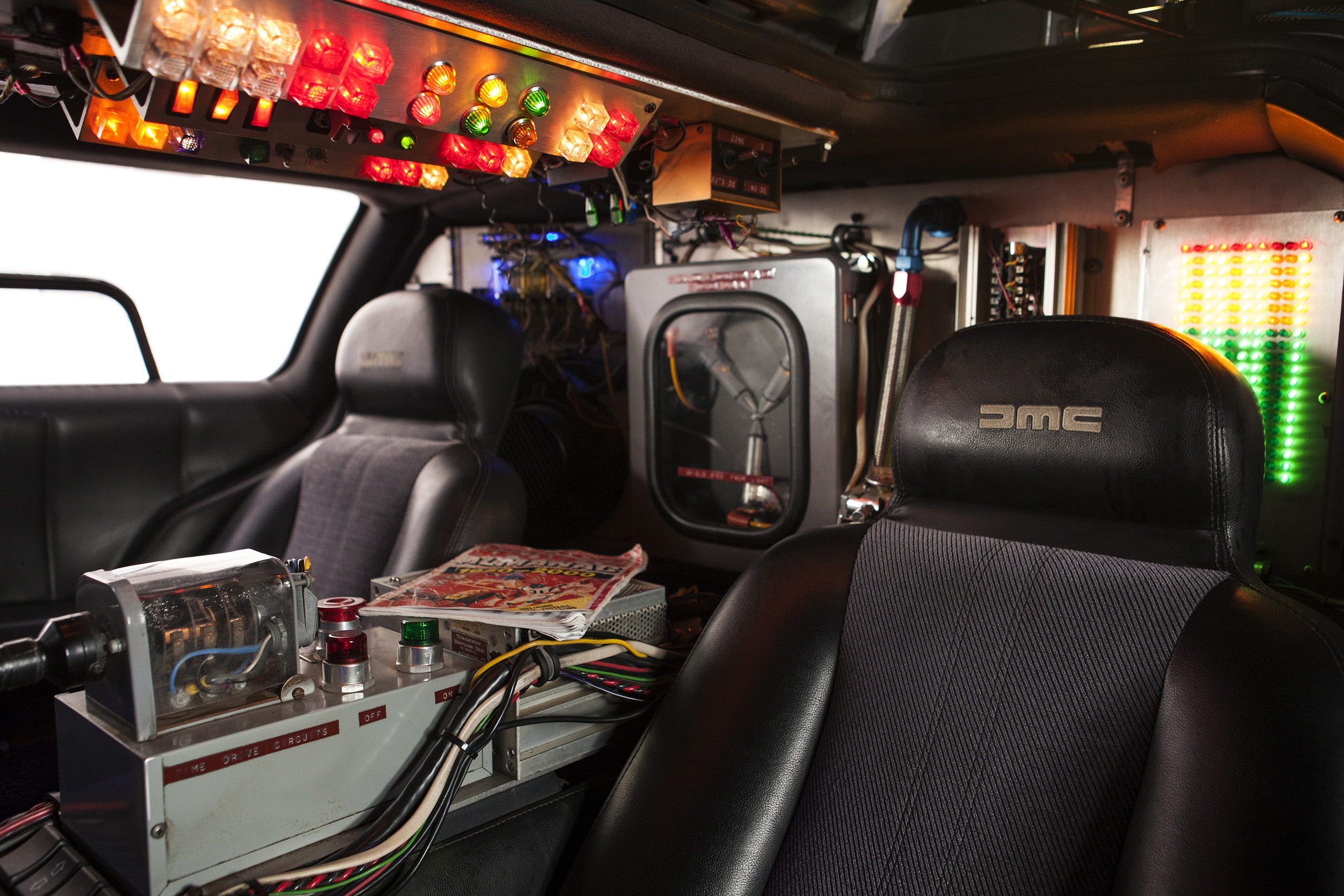 Back to the Future DeLorean Time Machine interior view facing rear